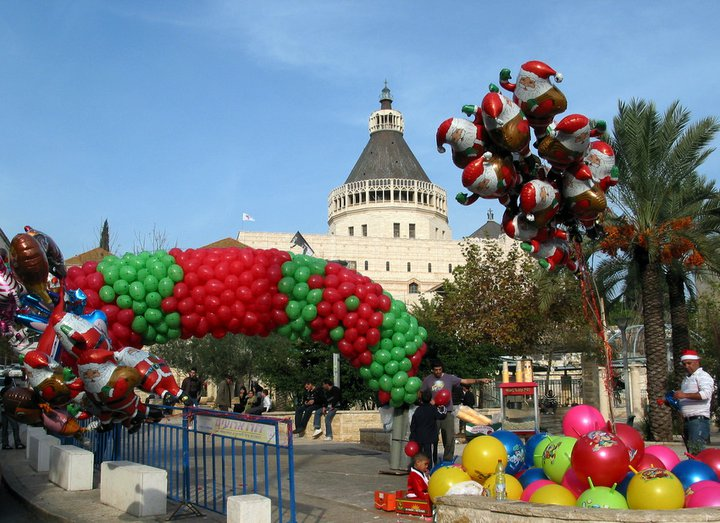 Cities in Israel